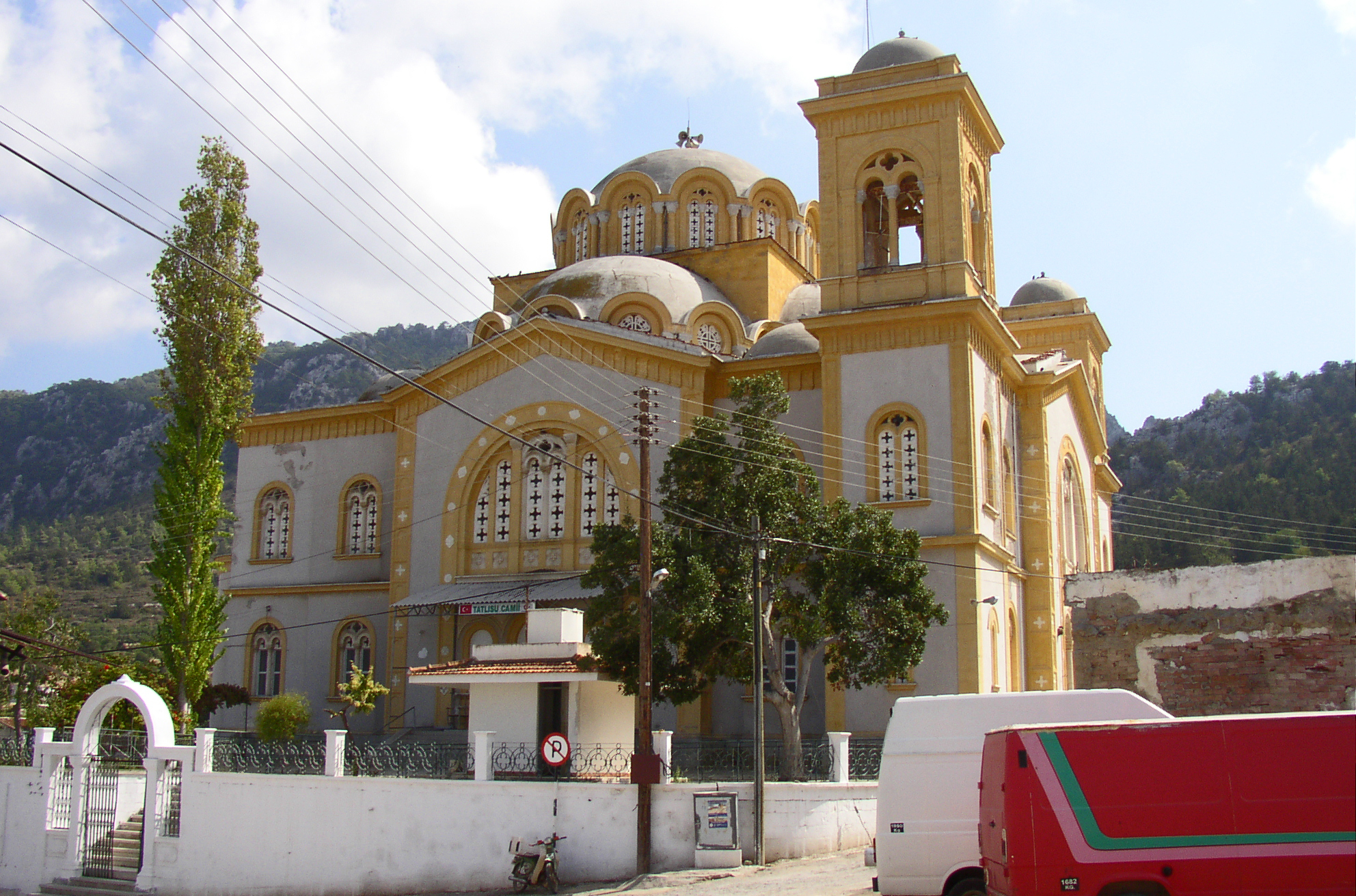 Mosque in Tatlisu, North Cyprus. Former greek church